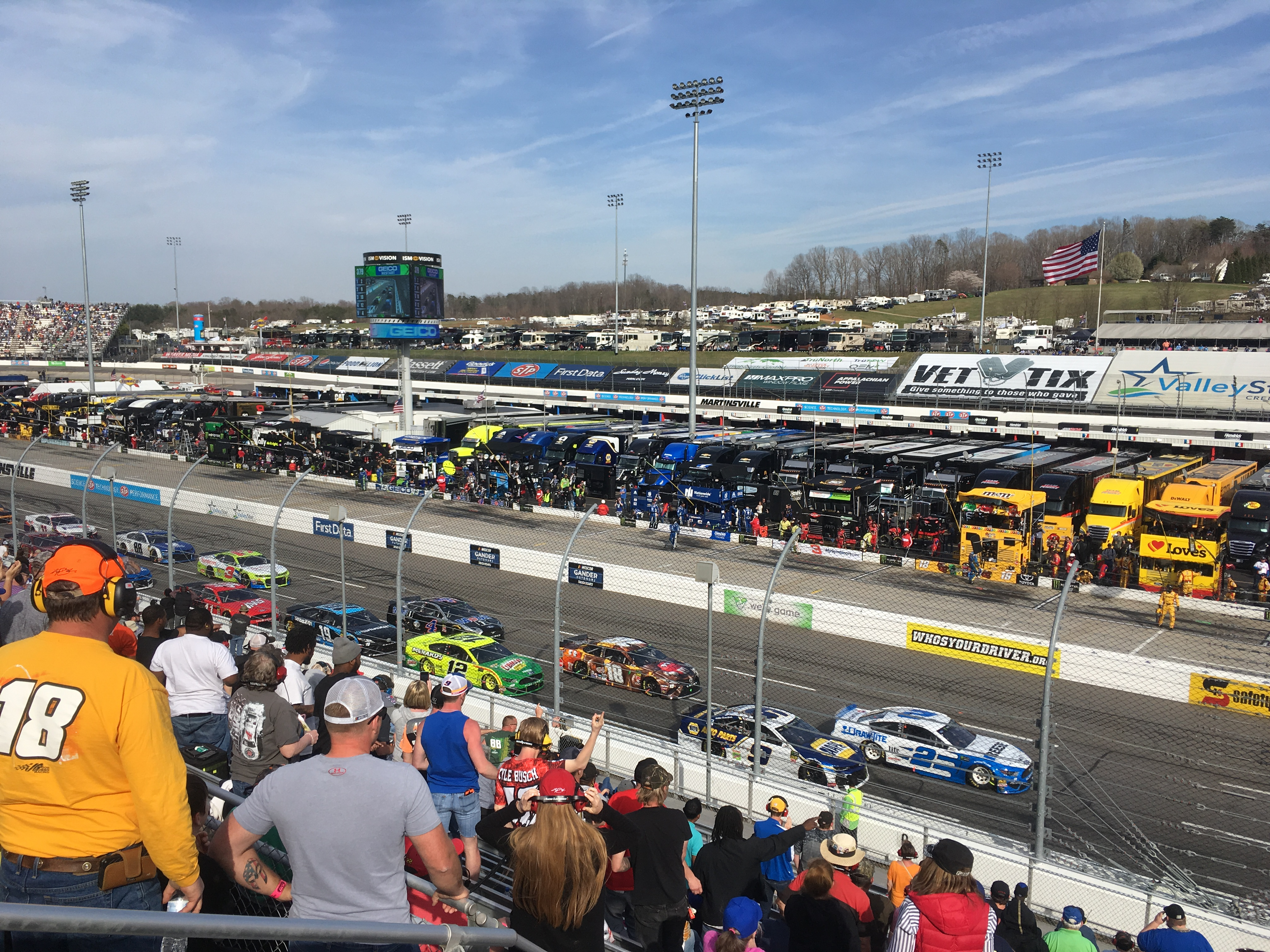 The 2019 STP 500 at Martinsville Speedway viewed from the frontstretch. Brad Keselowski (#2) leads Chase Elliott (#9), Kyle Busch (#18) and the rest of the field following a restart.